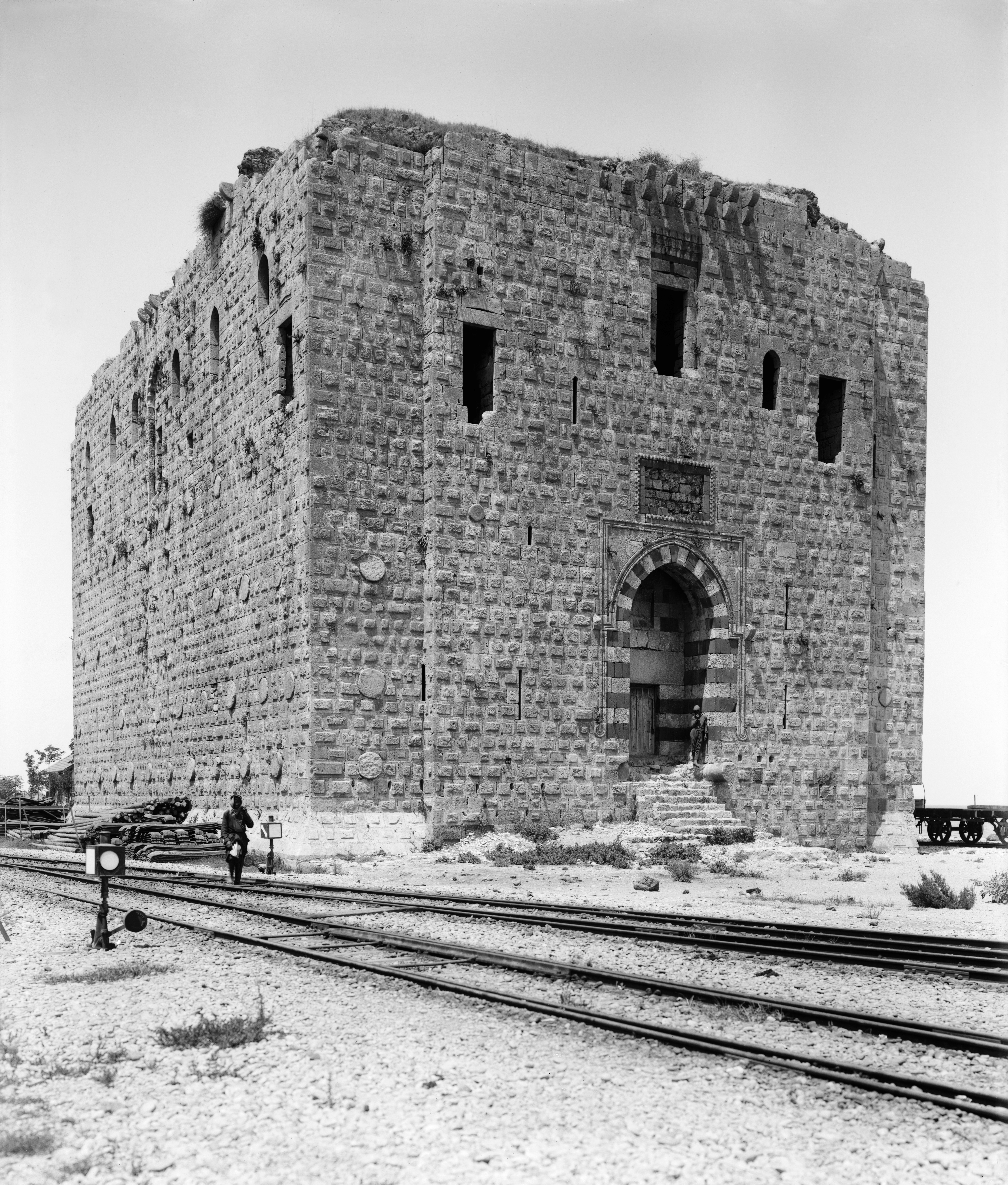 Photograph of Lion Tower, Tripoli